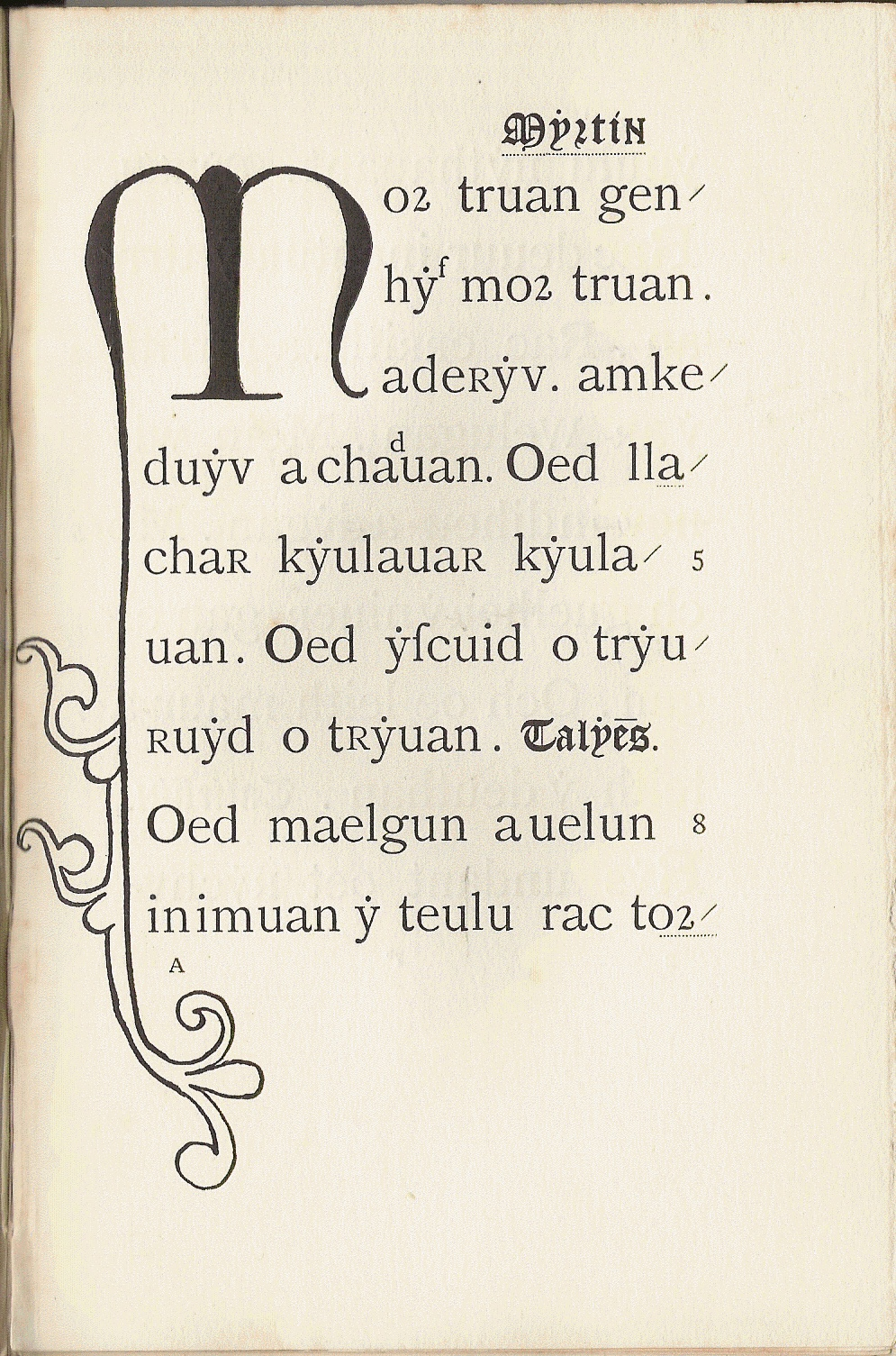 Page of an edition (1907, J. Gwenogvryn Evans) of the Black Book of Carmarthen (1250).